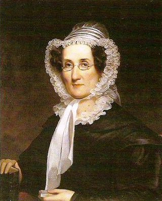 Portrait of Lydia R. Bailey